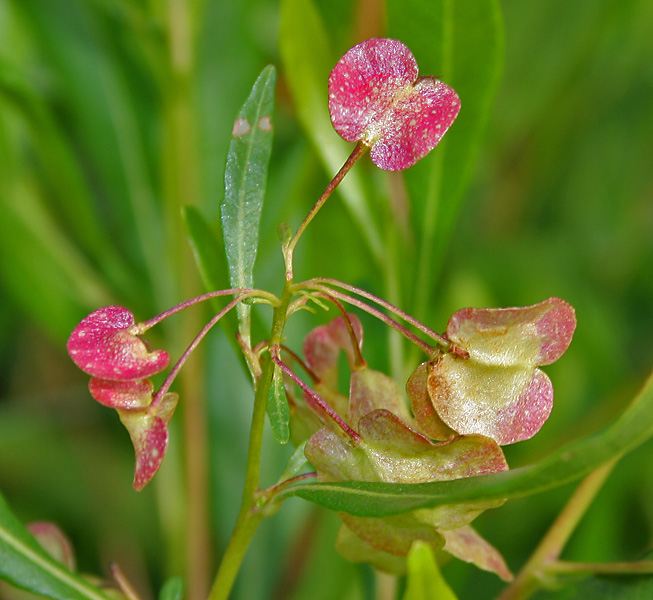 Sticky hop bush, Hopseed, Hopbush, Akeake or Aalii Dodonaea viscosa in Hyderabad , India.